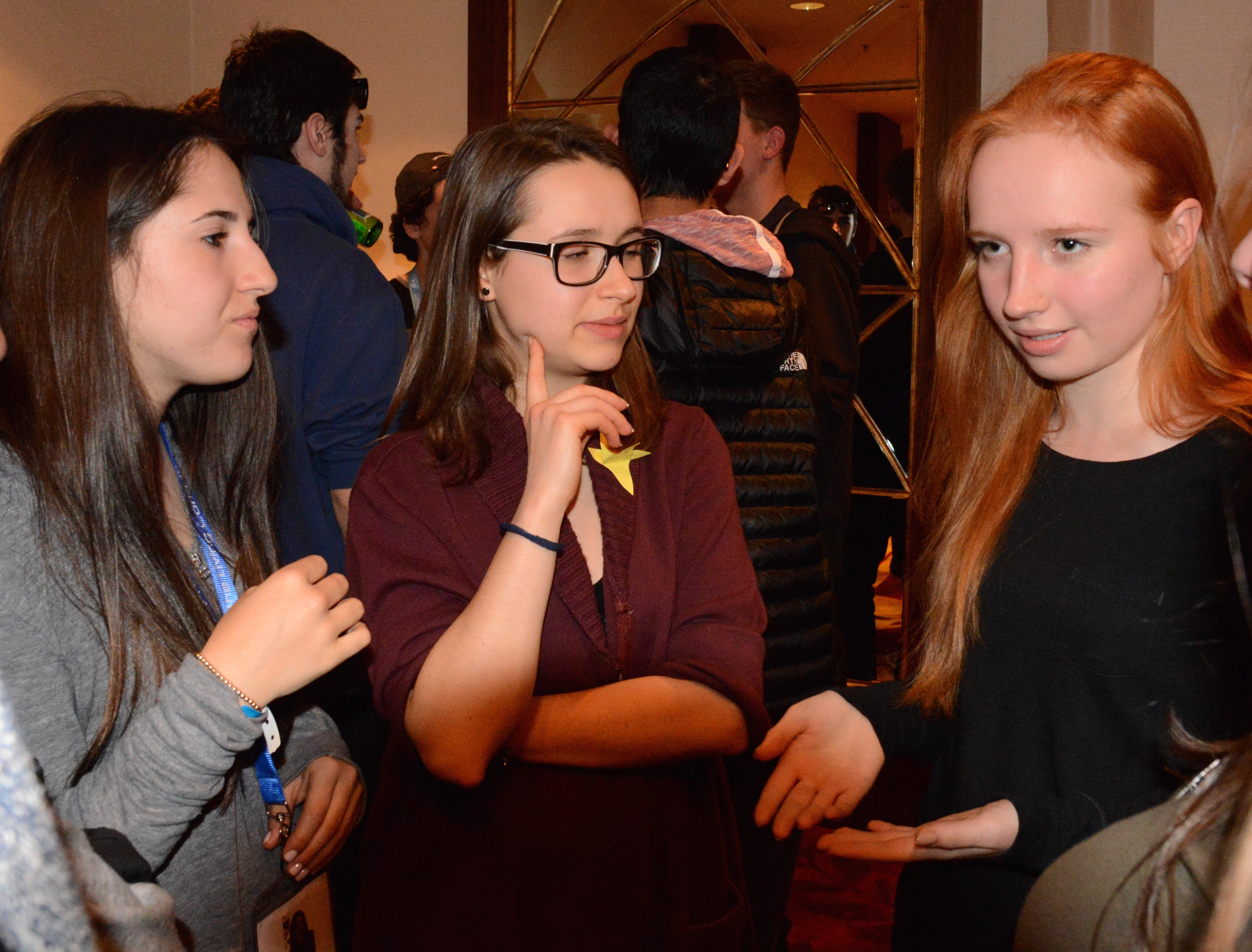 An important element on the March of the Living is fostering positive relations between Poles and Jews. Polish-Jewish dialogue among the younger generation on the March of the Living plays an important role in this effort.